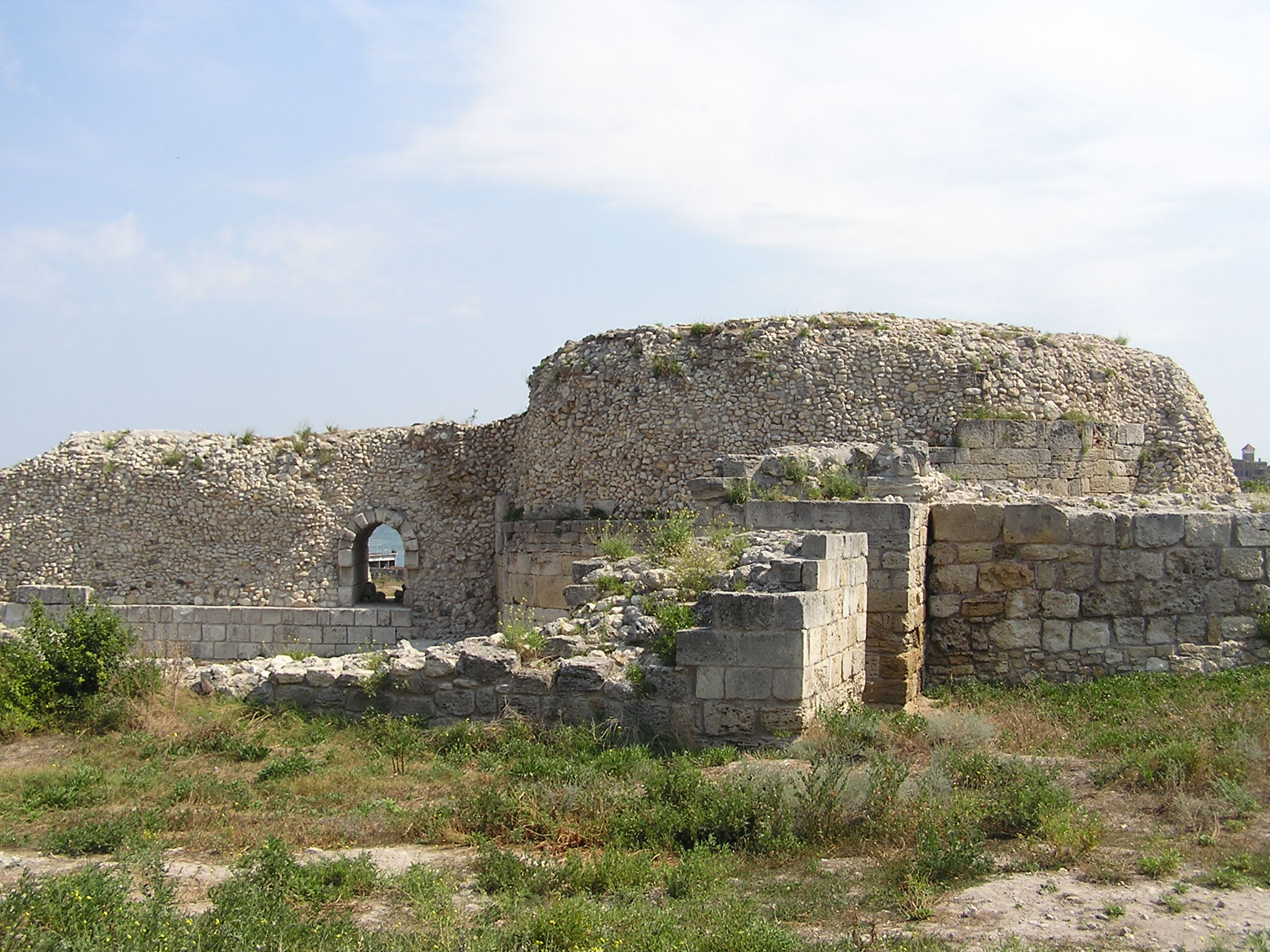 Chersonesos Taurica. Zenon Tower - defensive tower south-east section